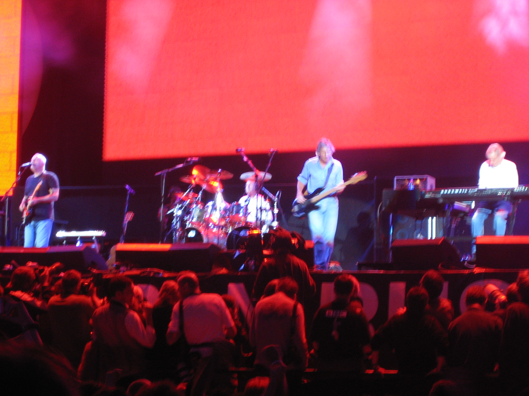 Pink Floyd Live 8 London